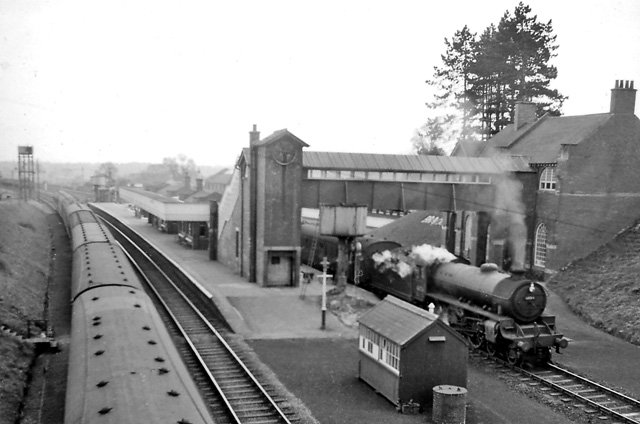 Brackley Central Station, with train. View southward, towards London; ex-GCR London Marylebone - Leicester - Sheffield Main line, which was closed completely Aylesbury - Annesley (north of Nottingham) on 5/9/66, except that until 5/5/69 a local service was continued Rugby - Arkwright St. (Nottingham). The train is a Down stopping train, headed by a Class B1 4-6-0; the line of coaches on the left are probably in storage